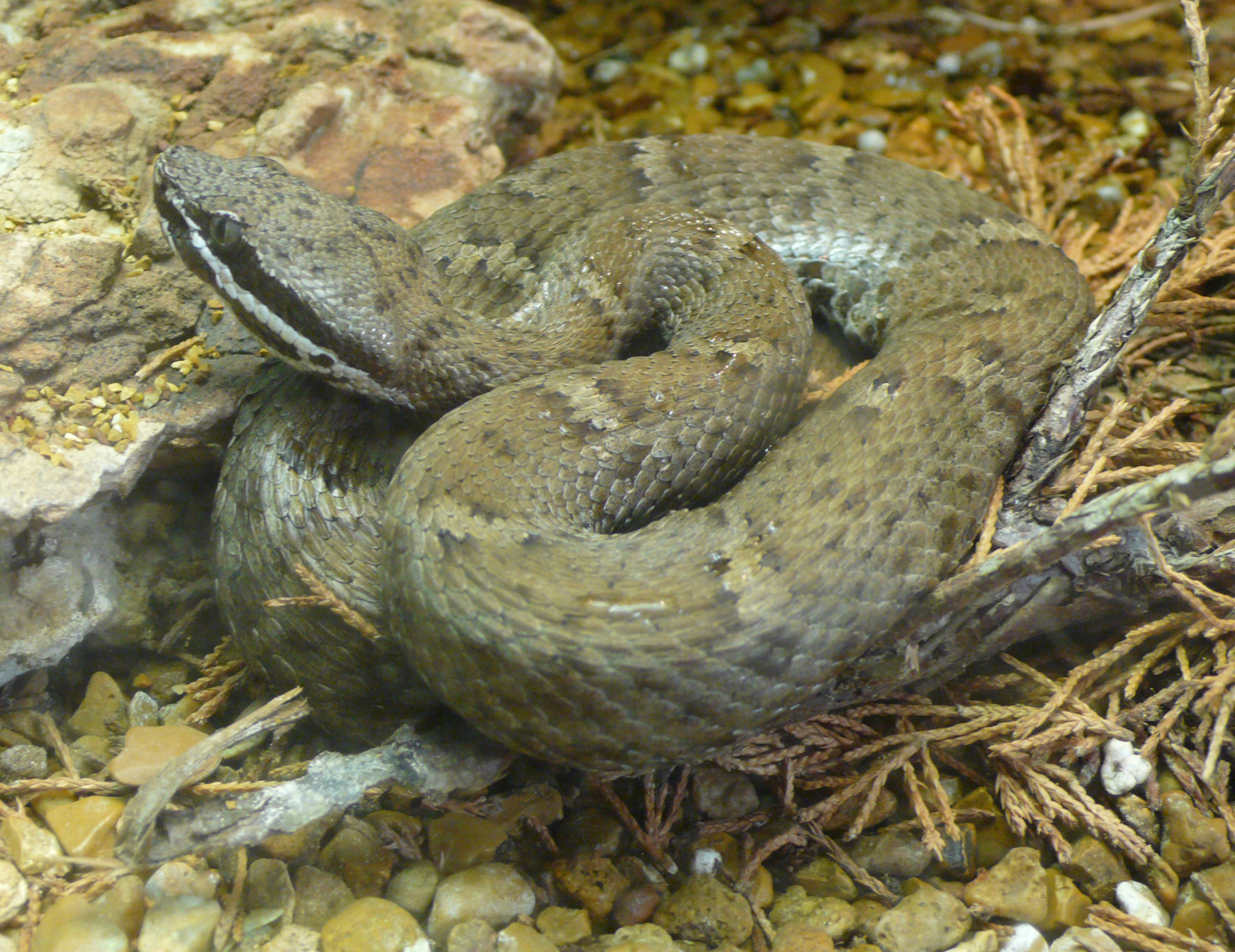 Arizona ridgenosed rattlesnake (Crotalus willardi willardi)